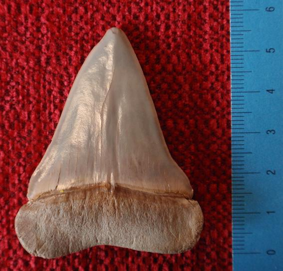 Isurus hastalis tooth (cm)